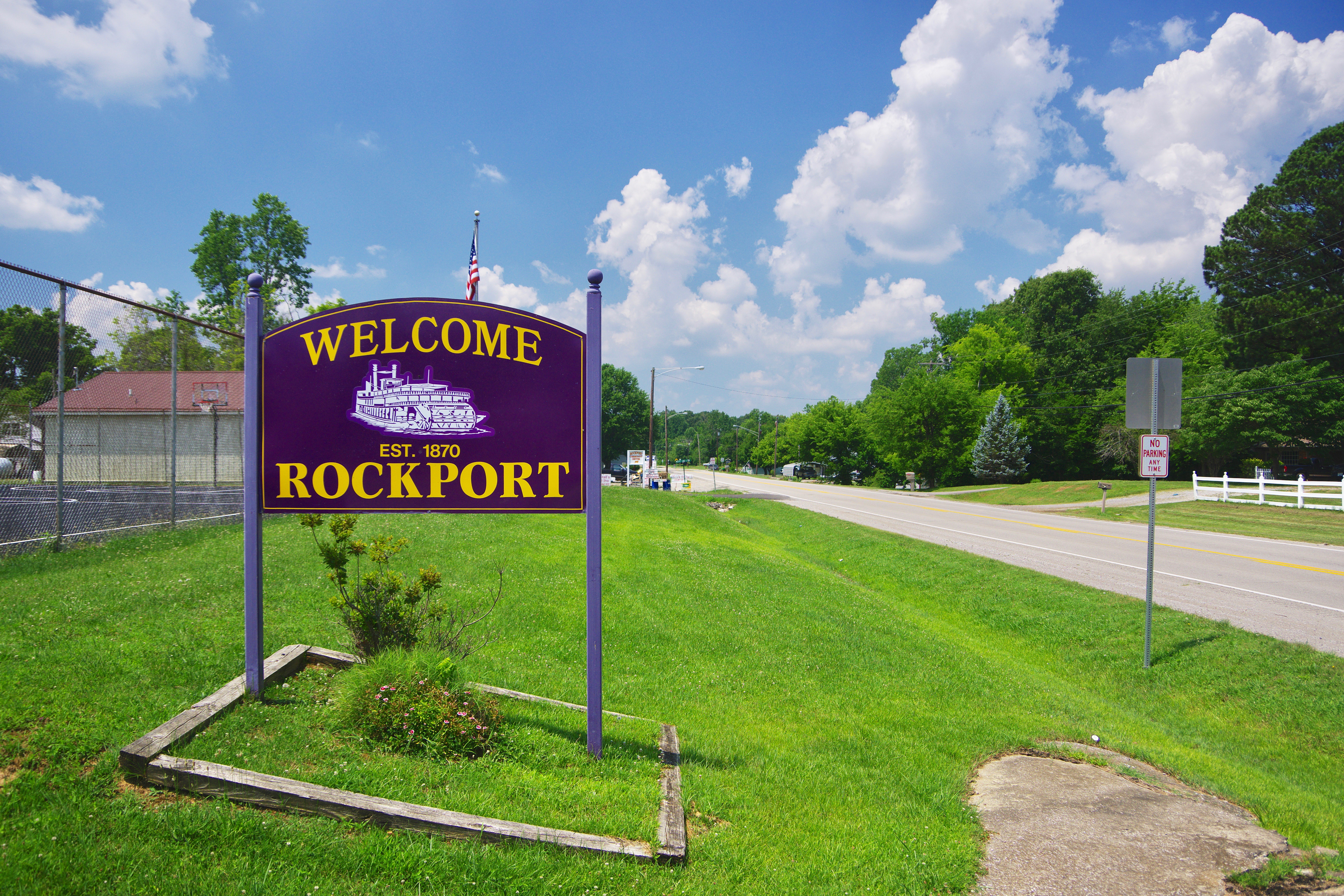 Welcome sign along U.S. Route 62 in Rockport, Kentucky, United States.